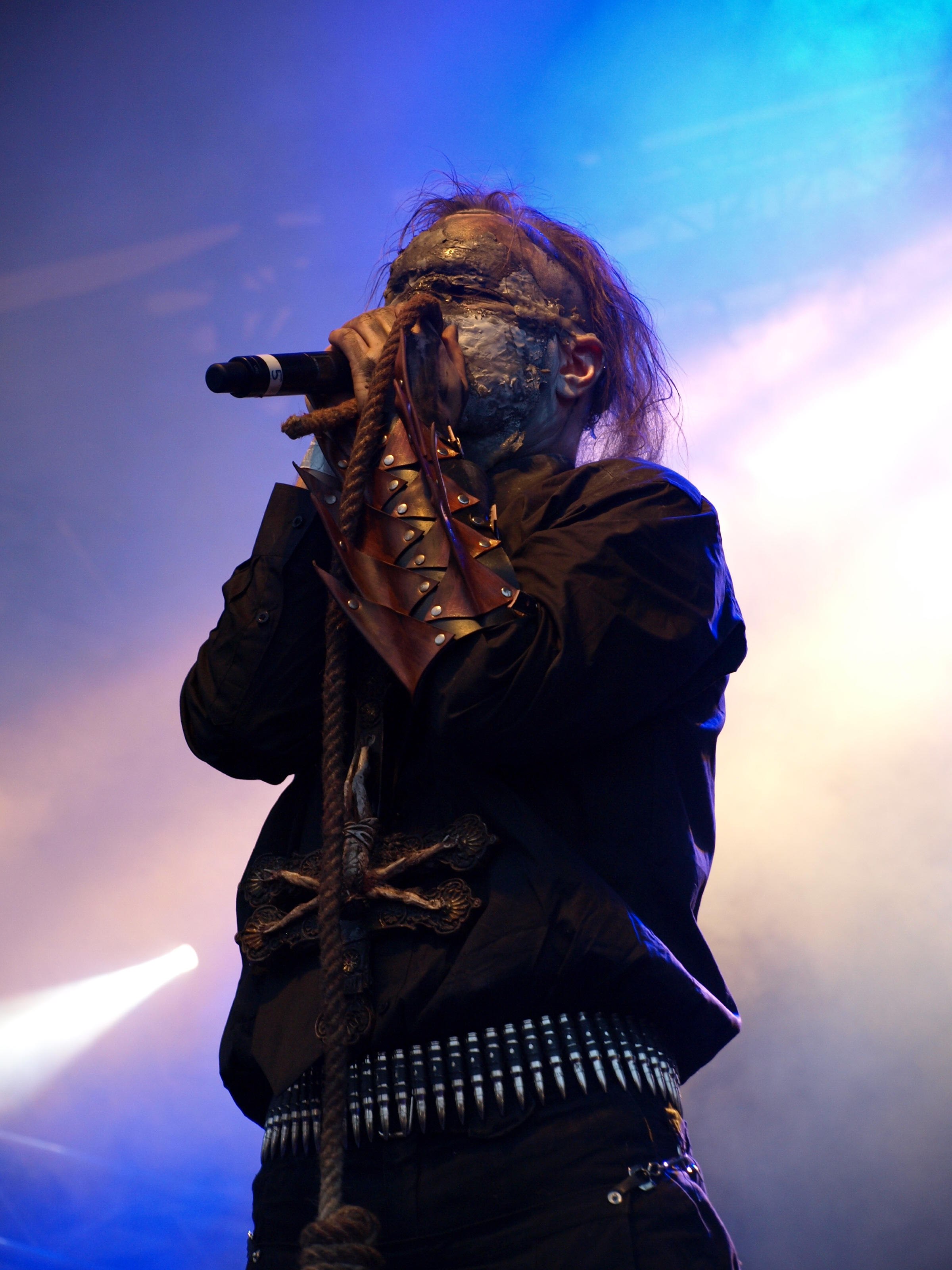 Norwegian black metal band Mayhem live at Jalometalli 2008 in Oulu.